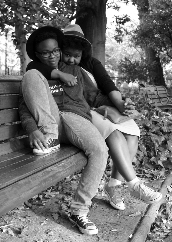 A lesbian couple share a moment.Location: South Africa, Cape Town.Event type: Being in nature.Date or year: 2015